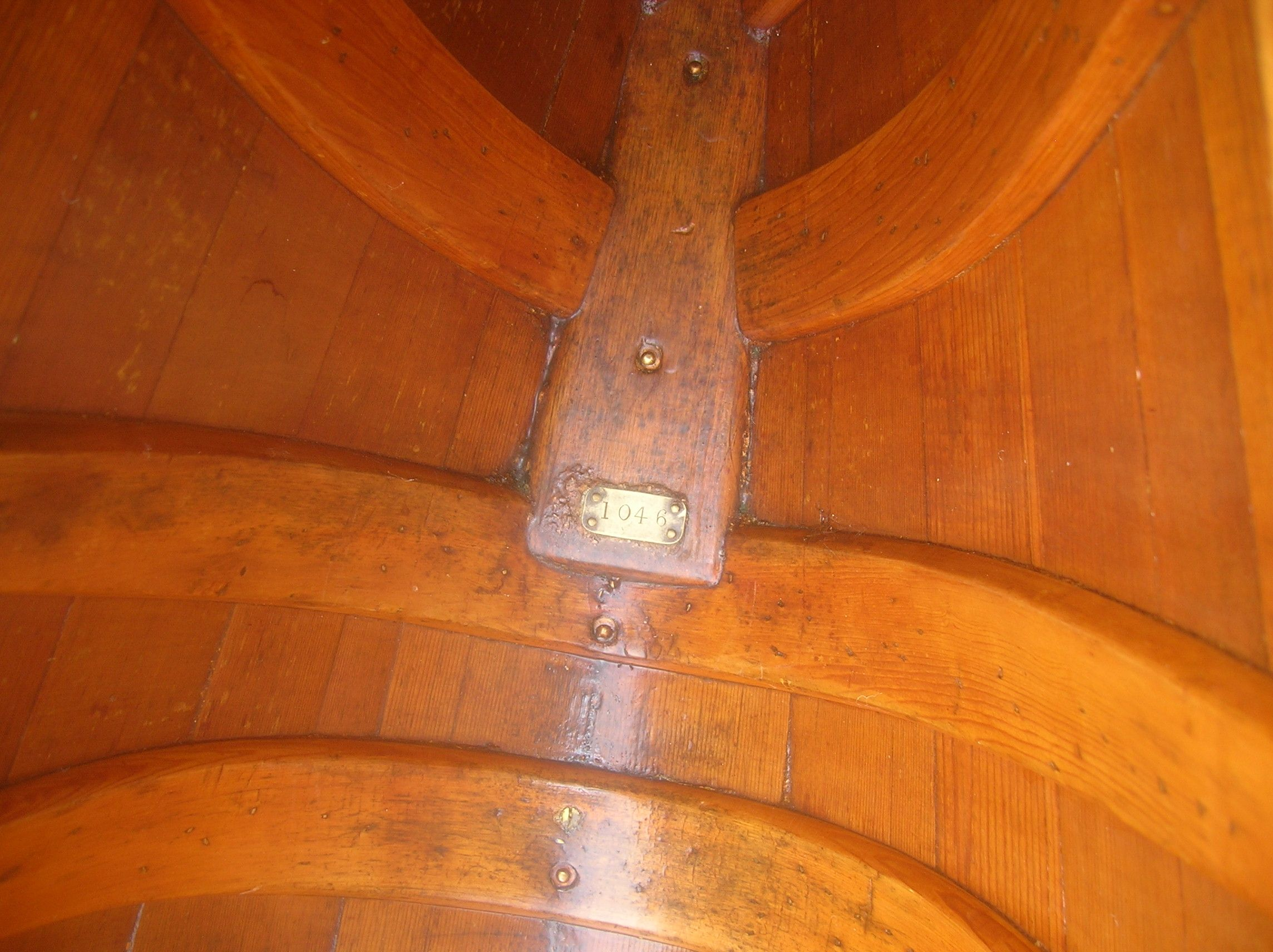 serial number tag or plate made of brass, affixed to the splayed stem of a Morris canoe